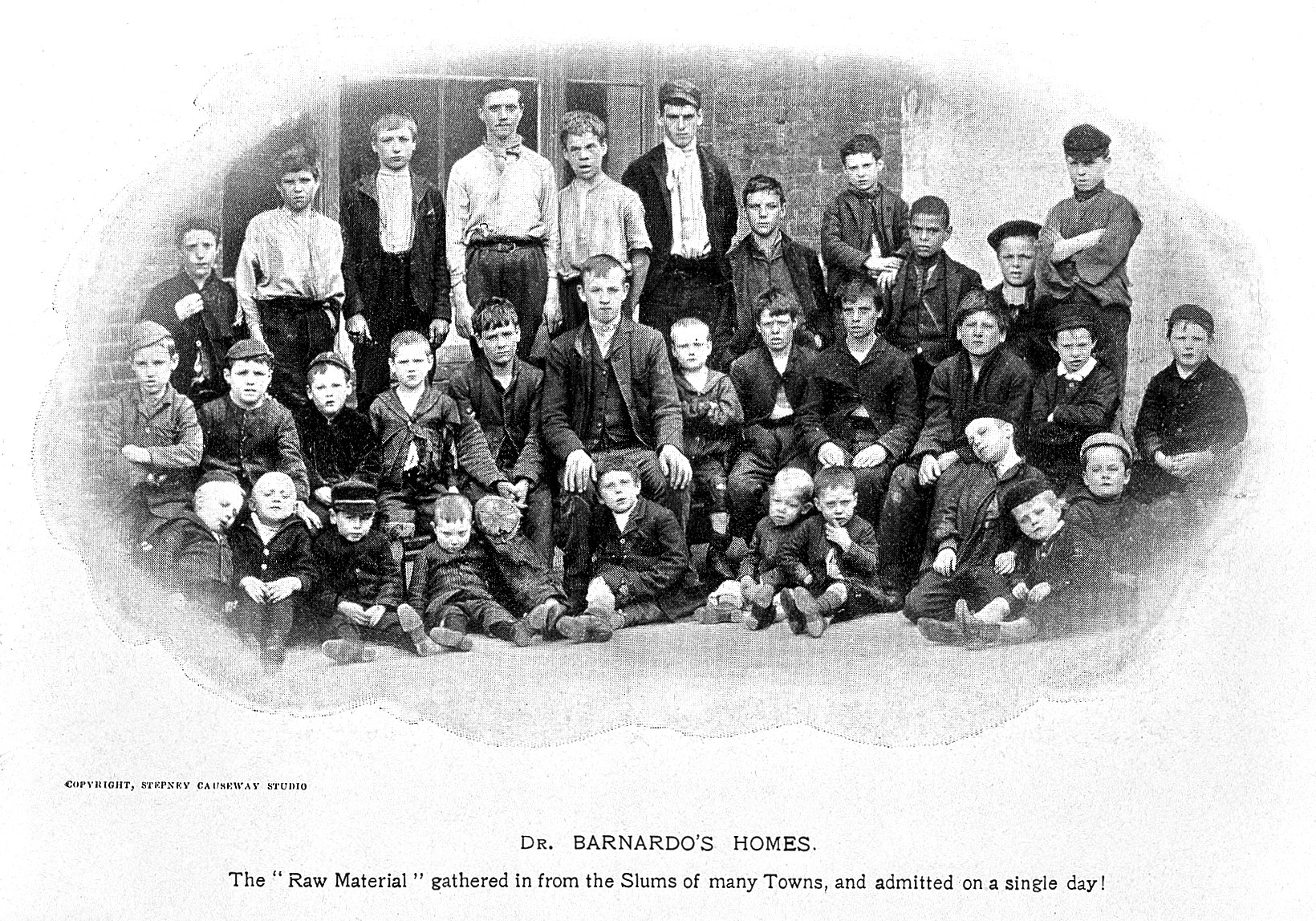 Group portrait of children outside a Barnardo home. Dr Bernardo's homes. Raw material gathered in from the slums of many towns. Archives & Manuscripts Keywords: Poverty; Child Welfare; Thomas John Barnardo